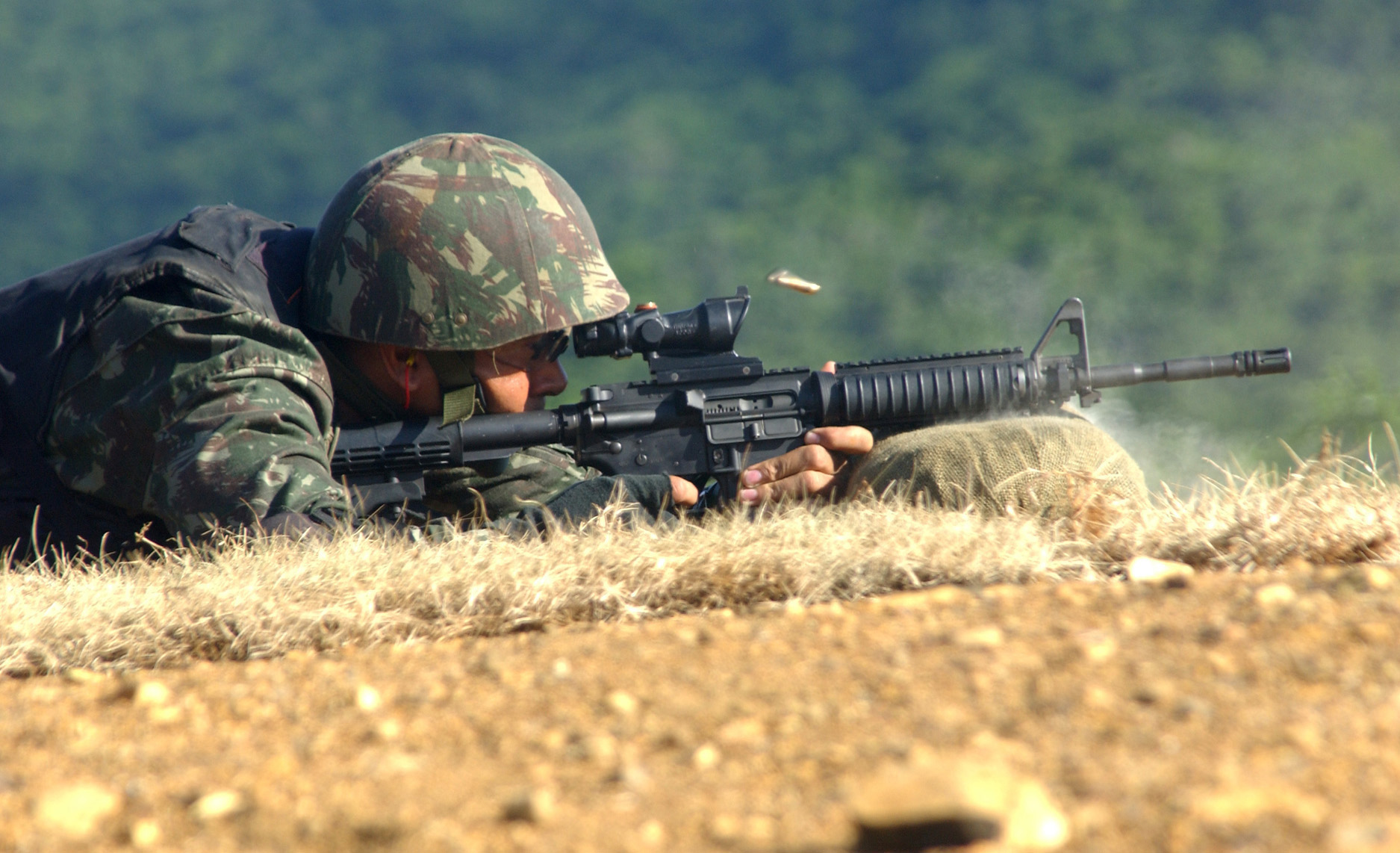 A Brazilian Special Operation soldier fires his rifle at a series of targets during the rifle qualification event June17 outside the Dominican Armyâ€™s 1st Infantry Brigade in Santo Domingo. This event is one of many Special Operations teams from 18 nations across the western hemisphere are evaluated on as part of the Fuerzas Comando 2010 competition. The rifle and pistol event judge the marksmanship abilities of each Special Operations team. The winning team earns 100 points toward their overall score in the weeklong competition.